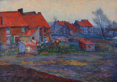 De rode daken